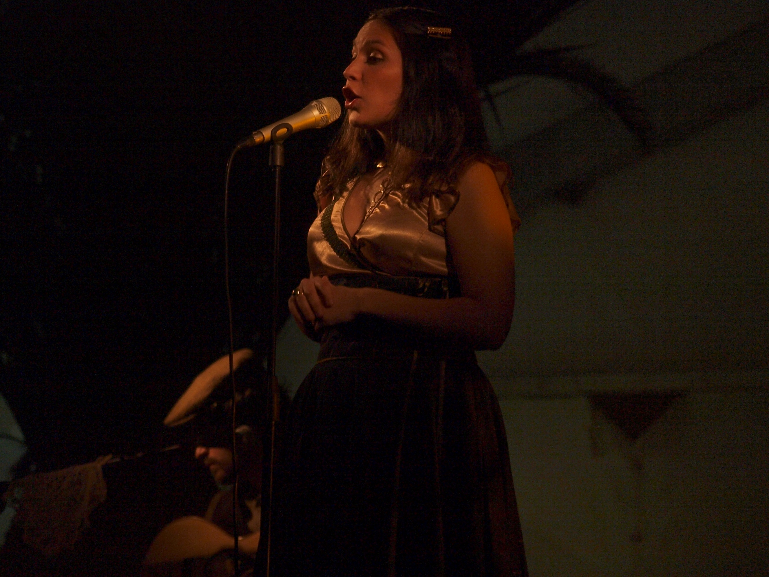 Deolinda (a portuguese band) live at Monchique, Algarve, Portugal.